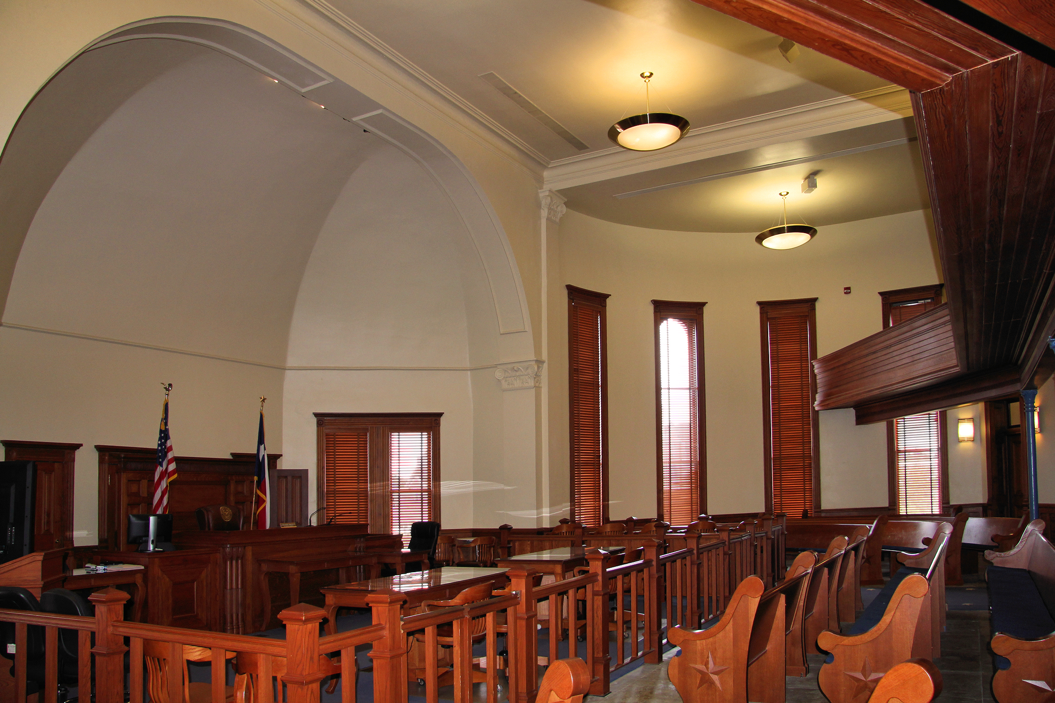 Large courtroom on the second floor of the Hopkins County Courthouse in Sulphur Springs, Texas, United States.